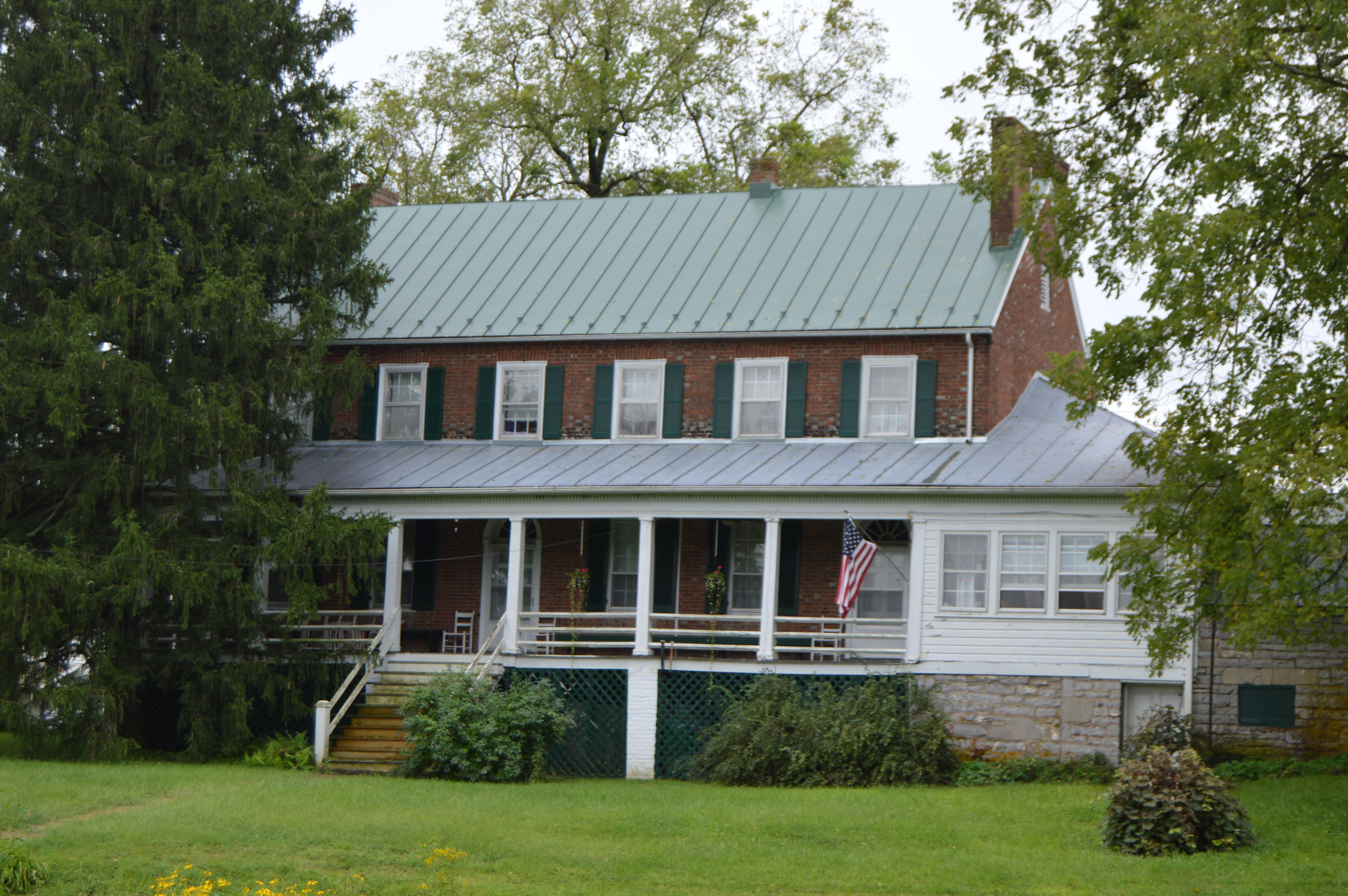 Front of the Wall Brook Farmhouse, located at 967 Longs Road south of Salem in Page County, Virginia, United States. Built in 1824, it is listed on the National Register of Historic Places.